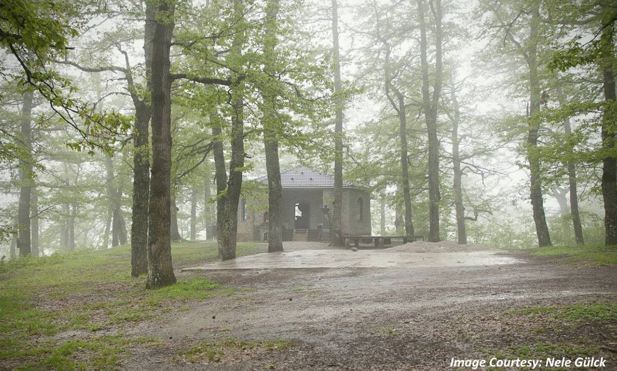 In the picture is depicted Dobergora, a sacred mountain together with its waqif.